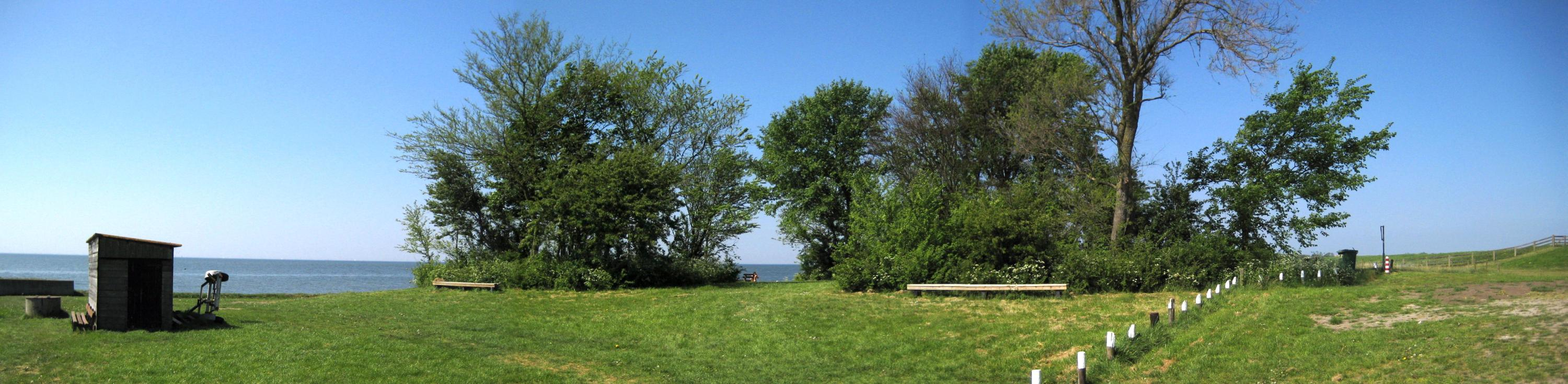 The small recreational ground near the harbour of Laaksum in the Dutch province of Fryslân